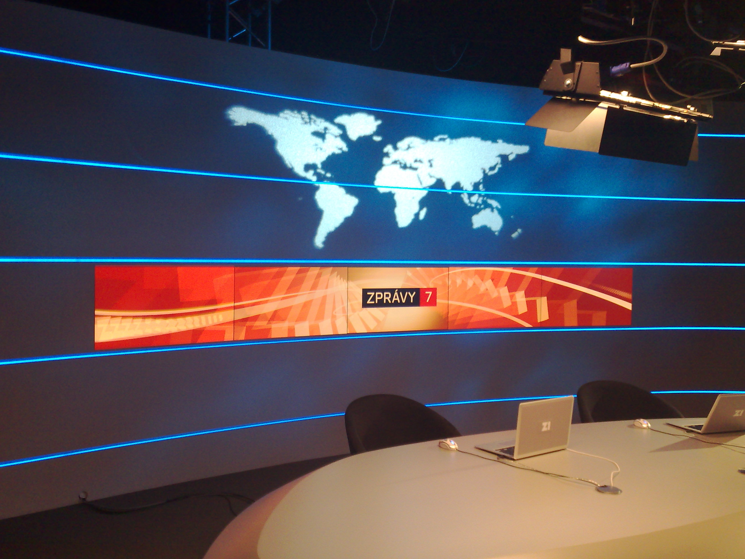 Studio TV Z1, Czech republic, Prague, 2008